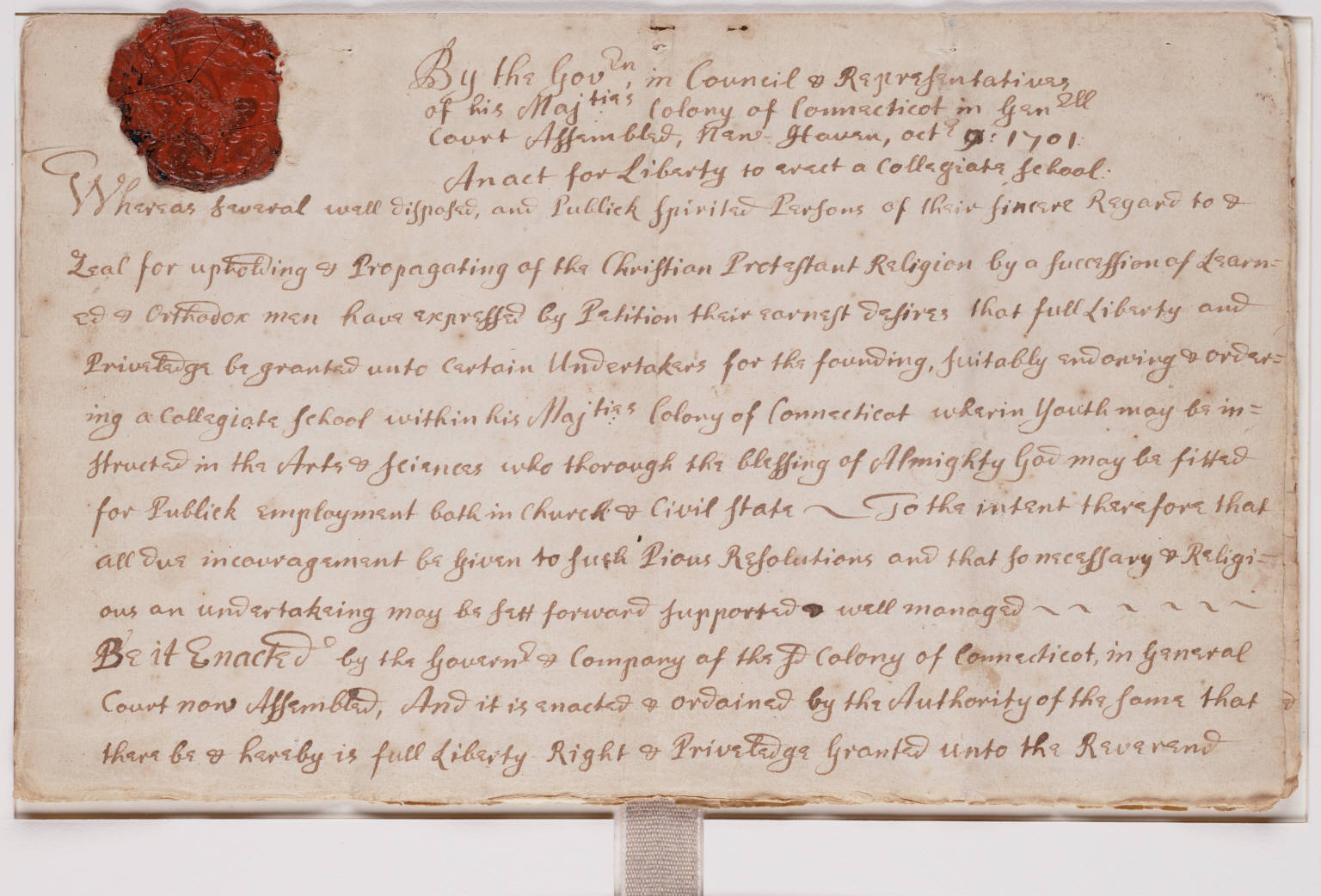 Charter granted by the Governor in Council and Representatives of his Majesty's government in Connecticut to erect the Collegiate School, later known as Yale College. Image courtesy of the Beinecke Rare Book & Manuscript Library, Yale University.